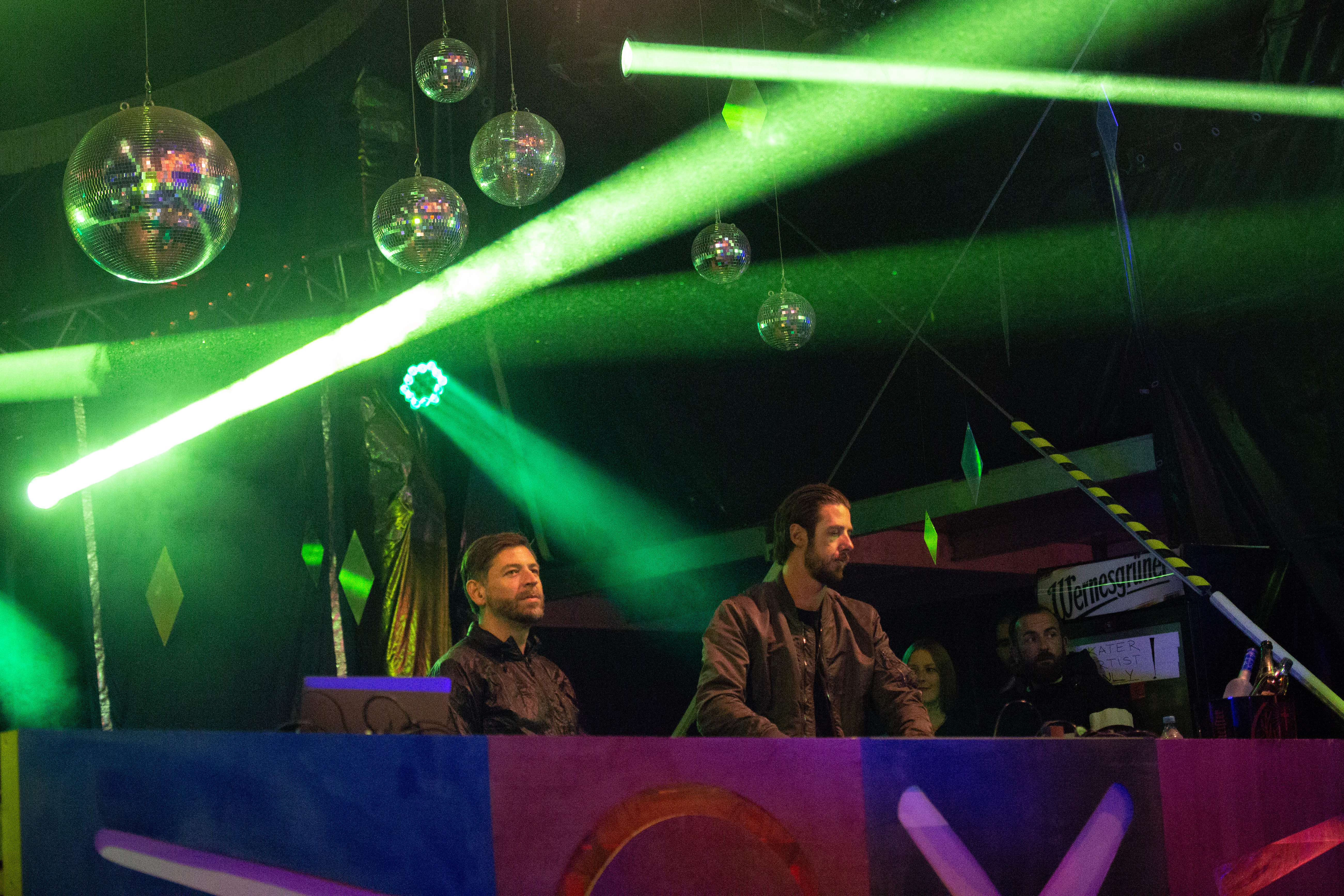 Moonbootica at SonneMondSterne 2018, SMS.Beach: Katermukke